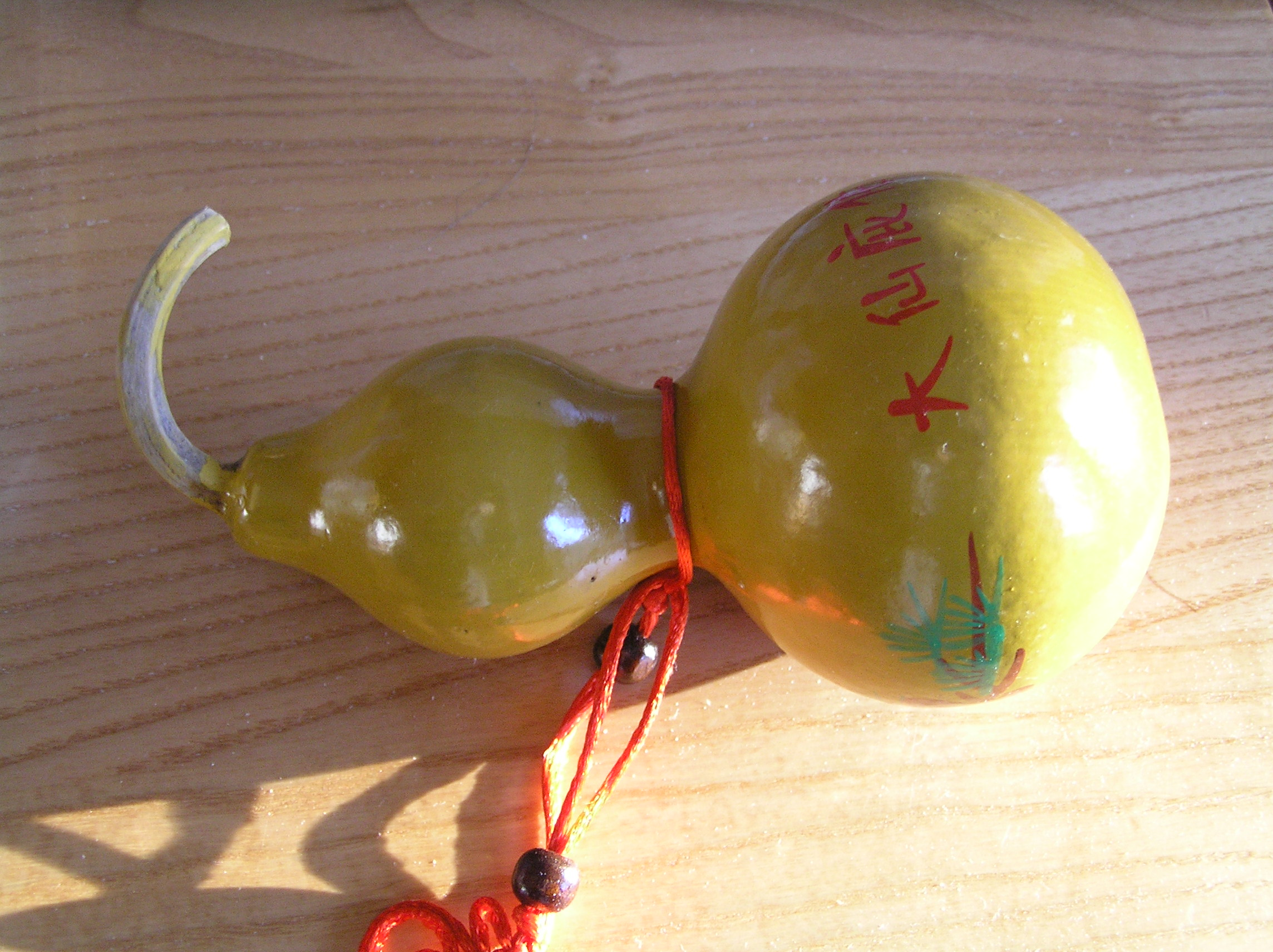 Feng shui Bottle Gourd (葫蘆)